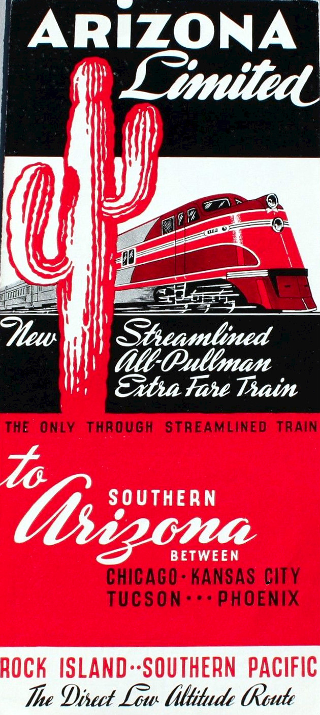 November 1940 brochure for the Rock Island/Southern Pacific train Arizona Limited. Arizona Limited was discontinued in 1942 because of WWII.